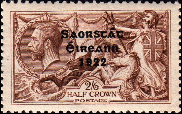 1922 2/6 value King George V stamp overprinted Saorstát Éireann 1922 for use in the newly independent Irish Free State